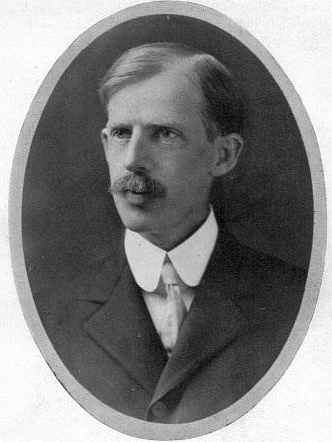 Prof. Fayette A. McKenzie, Ohio State University. Other information No.